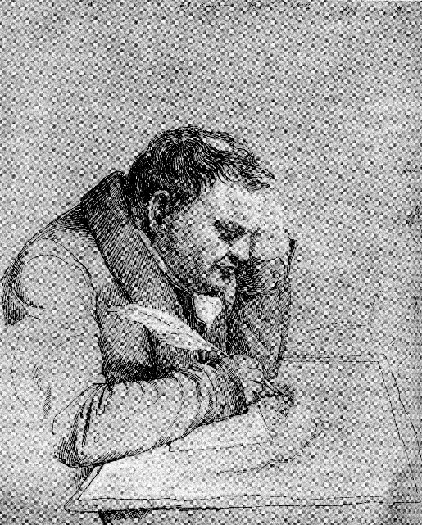 study for the portrait of Carl Friedrich von Rumohr